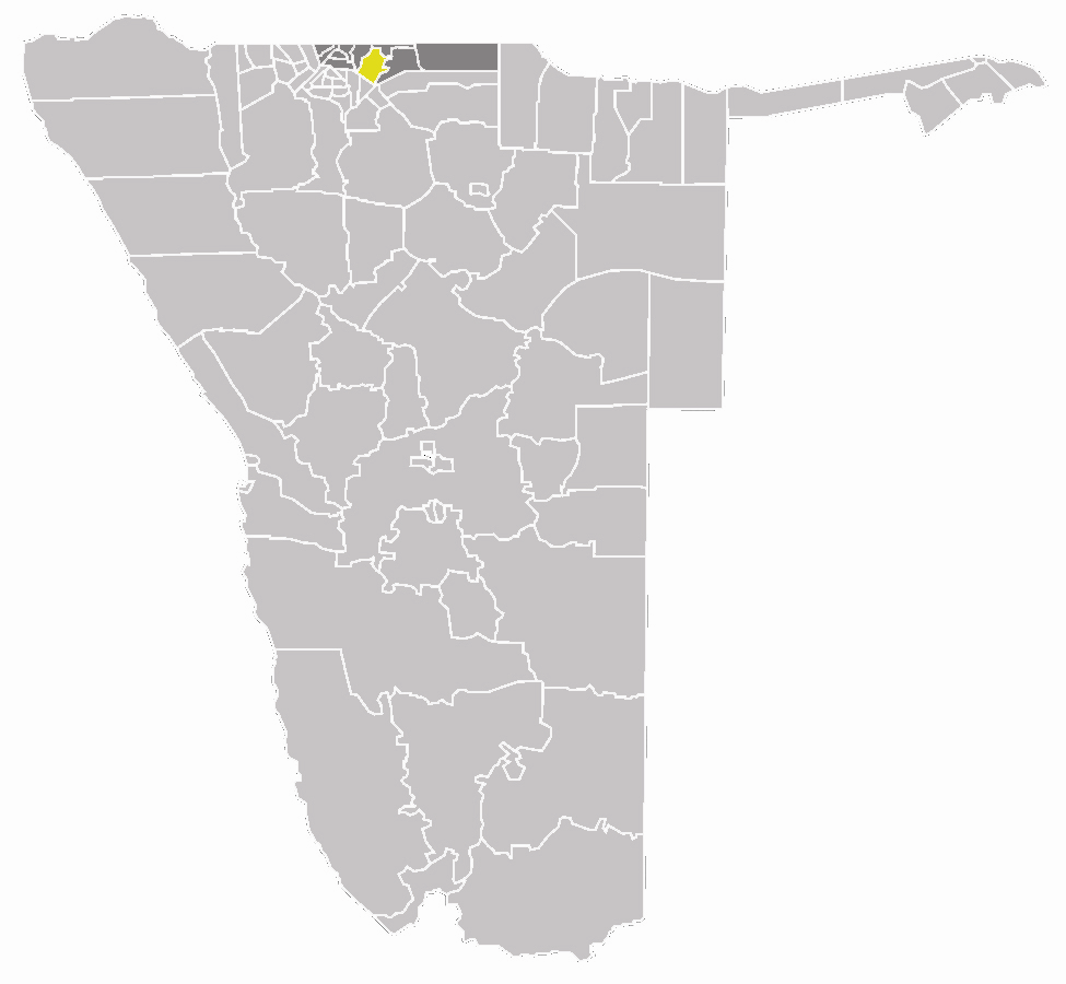 map of the Eenhana constituency within the Ohangwena region, Namibia